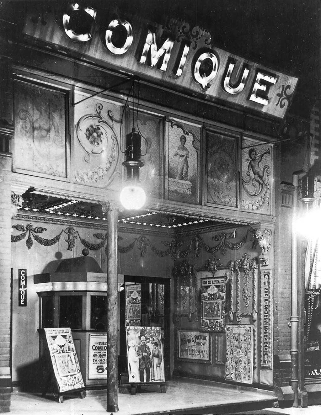 Front of Comique movie theatre. Note on the back of photograph at City of Toronto Archives says that the theatre operated from 1908 to 1914. One of the films advertised (Jean the Matchmaker) was released September 20, 1910. The admission price was 5 cents. Theatre was located on Yonge Street. In 2007, this location was occupied by the Hard Rock Cafe. As of 2019, the building is occupied by the Shoppers Drug Mart Corporation.